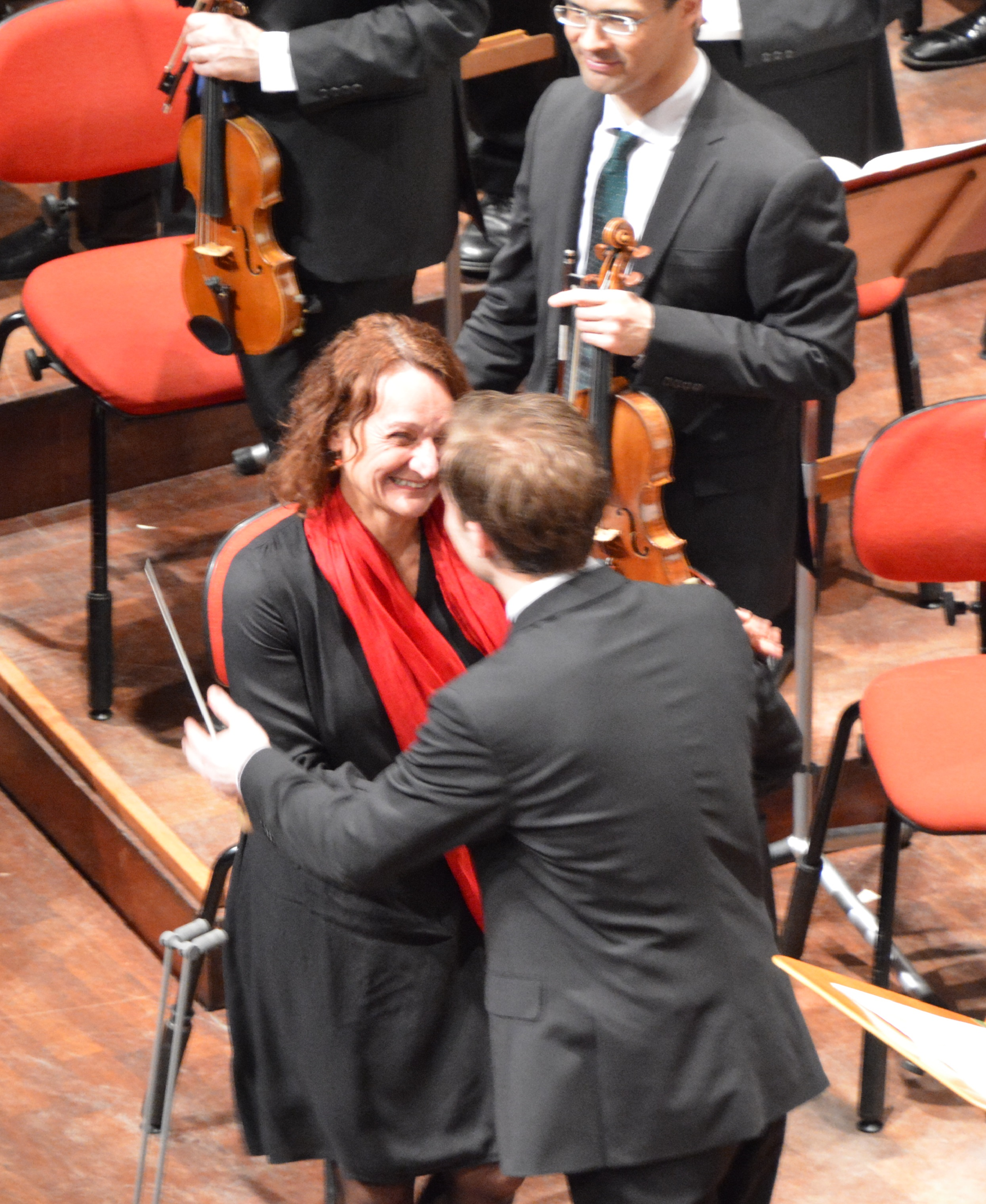 Composer Marie Samuelsson and Director Daniel Blendulf, at Berwaldhallen in Stockholm with Swedish Radio Symphony Orchestra, March 2016, first performence of Samuelsson's Afrodite - Fragment av Sapfo. Kärlekstrilogi nr 1